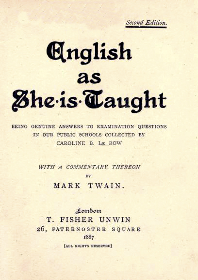 Title page.